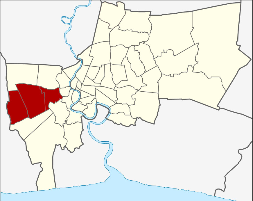 Bangkok 2007 Election Zone 11